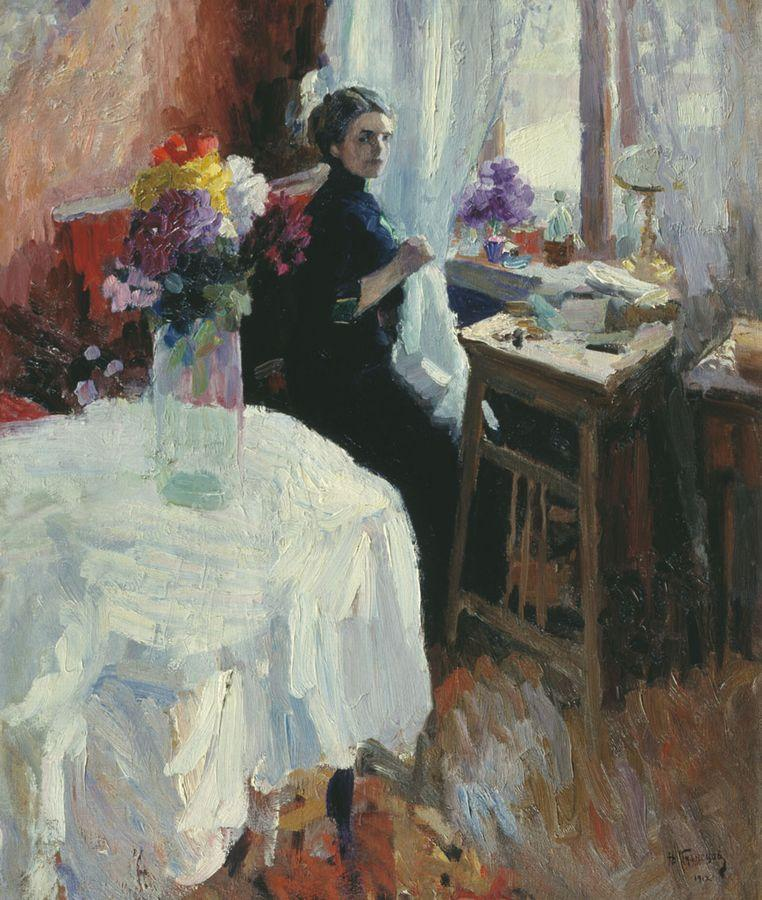 At work